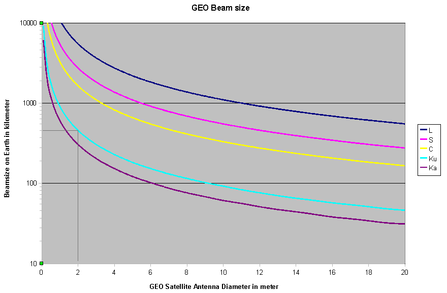 Spotsize on earth as a function of antenna diameter on GEO satellite (36000 km high) for different frequency bands: L: 1.5 GHz; S: 3GHz; C: 5GHz; Ku: 18GHz; Ka: 27GHz